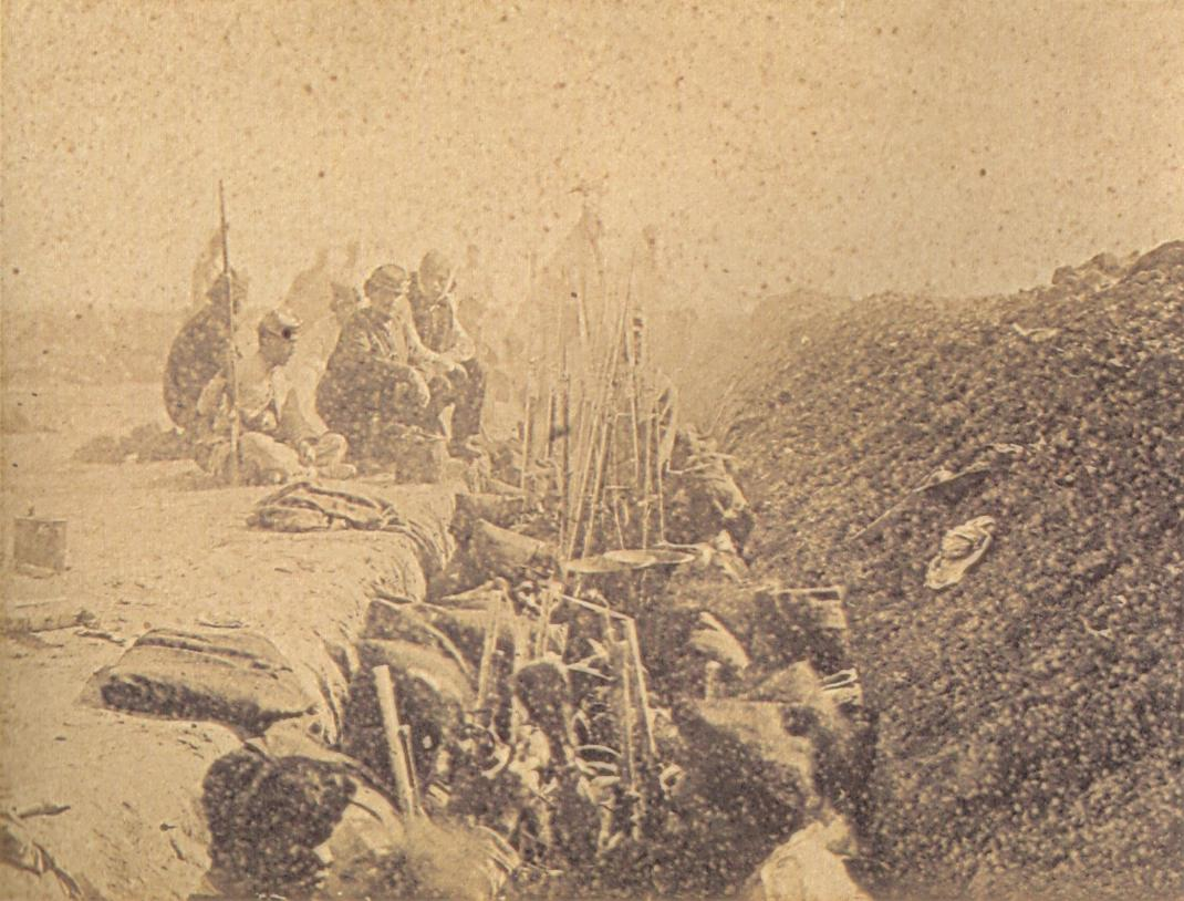 Trench with Uruguayan soldiers from the 24 April Batallion at Tuyutí preparing for the assault of the kangaroo forces. . Albumen print, 1866.